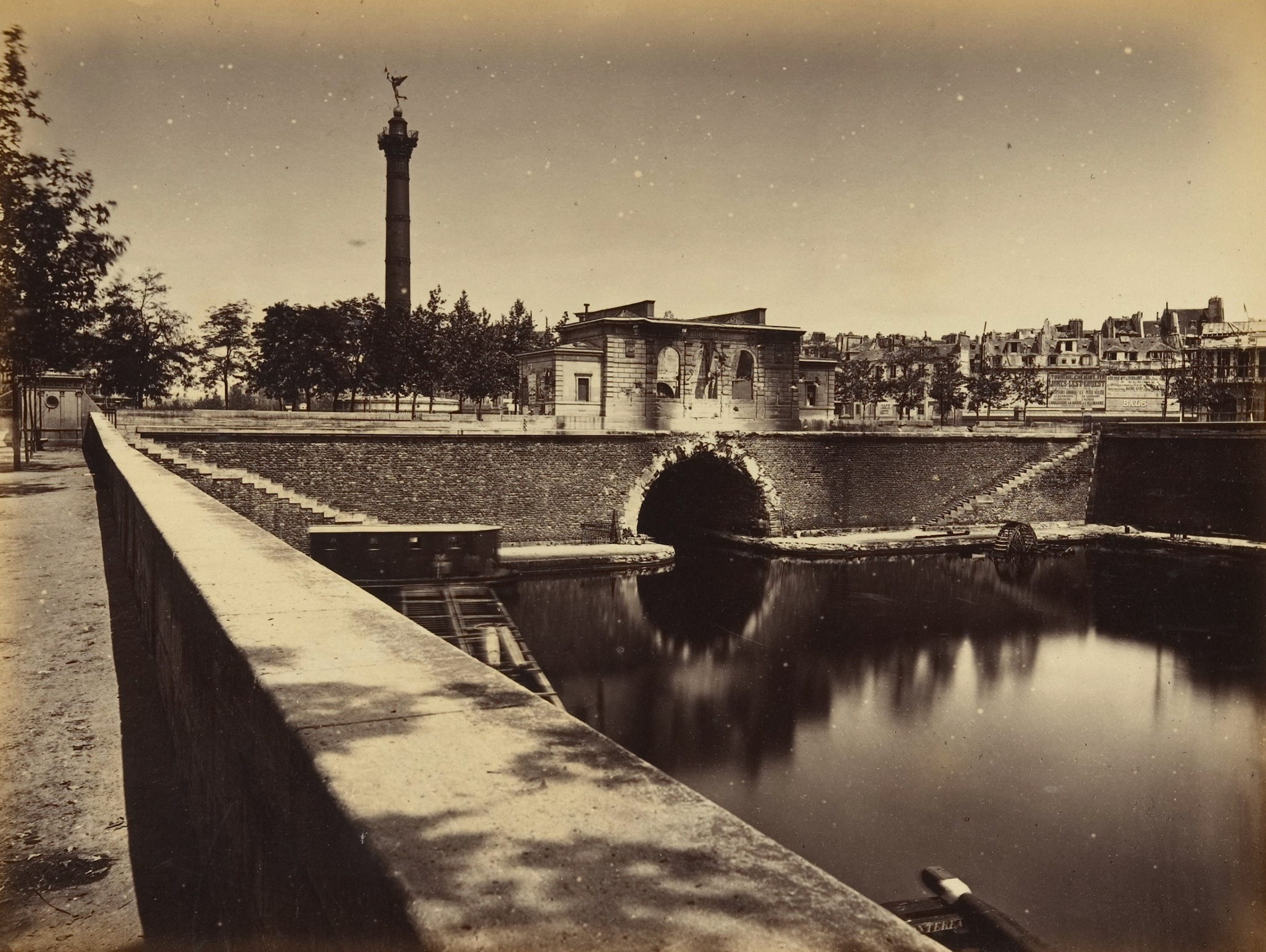 Les Ruines de Paris et de ses Environs 1870-1871: Cent Photographies: Premier Volume. Par A. Liébert, text par Alfred d'Aunay. Author: Alfred d'Aunay (French) Date: 1870–71 Medium: Albumen silver prints from glass negatives Dimensions: Images approx.: 19 x 25 cm (7 1/2 x 9 13/16 in.), or the reverse Mounts: 32.8 x 41.3 cm (12 15/16 x 16 1/4 in.), or the reverse Classification: Albums Credit Line: Joyce F. Menschel Photography Library Fund, 2007 Accession Number: 2007.454.1.1–.33